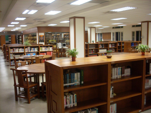 Interior of the 1st floor of Dharma Drum Buddhist College Library.